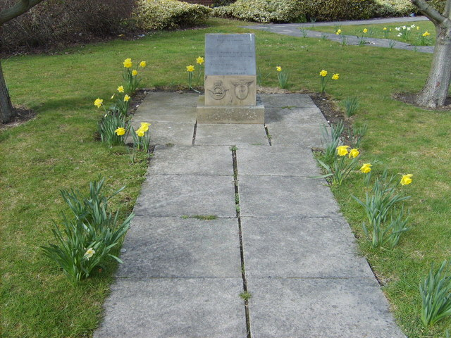 York Aerodrome Plaque with daffodils. This plaque marks the site of York Aerodrome and is dedicated to the memory of all RAF and Handley Page personnel who served here from 1939 - 1948 and to the original members of Yorkshire Aviation Services who operated the airfield between 1936 and 1939. Plaque is on the corner of Clifton Moor Gate and Kettlestring Lane.